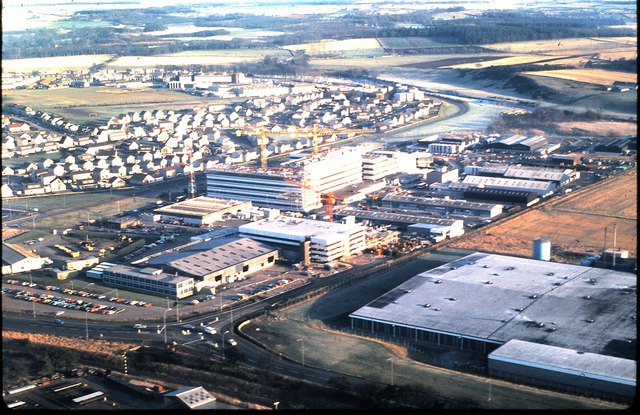 BPPD offices, Dyce (1981) And a view of the surrounding Dyce estate from the air.